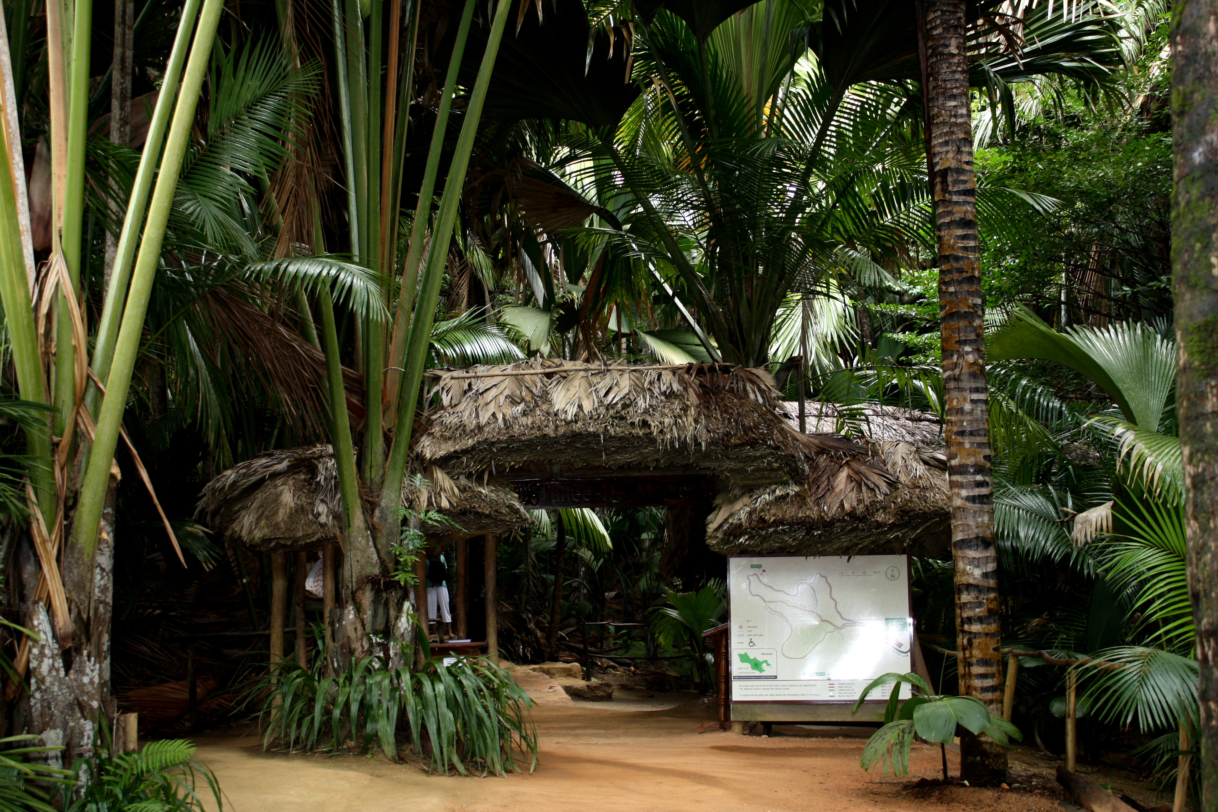 Entrance to Nature Reserve Vallée de Mai, Praslin, Seychelles